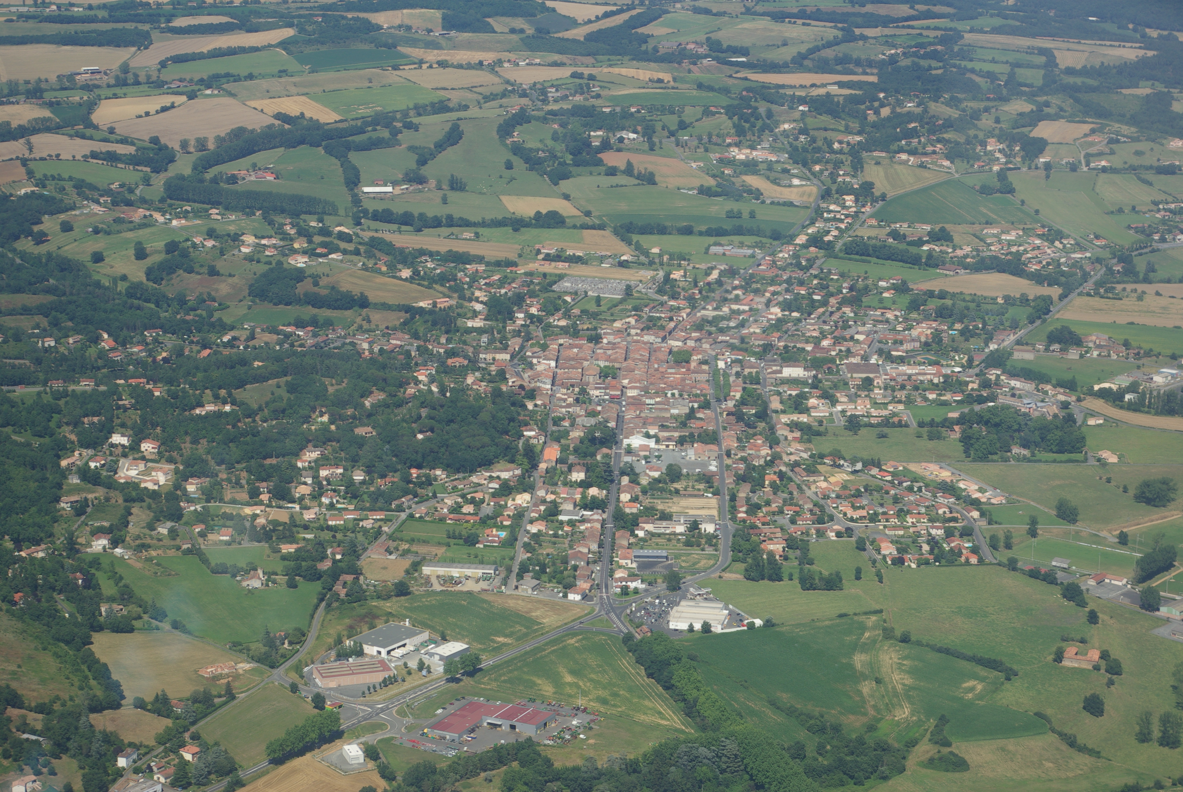 Aerial photo of Réalmont (Tarn, France)